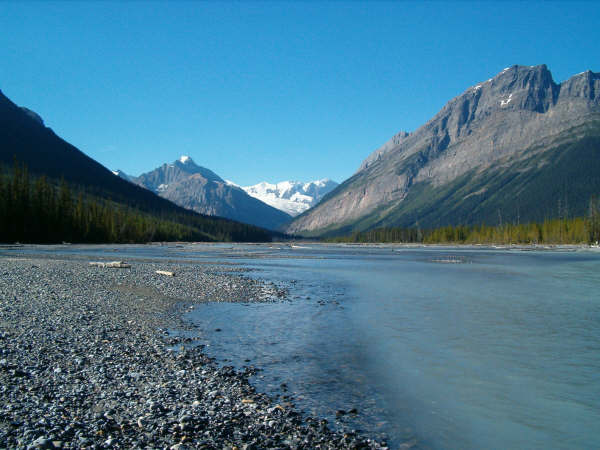 Erik Lizee - Author